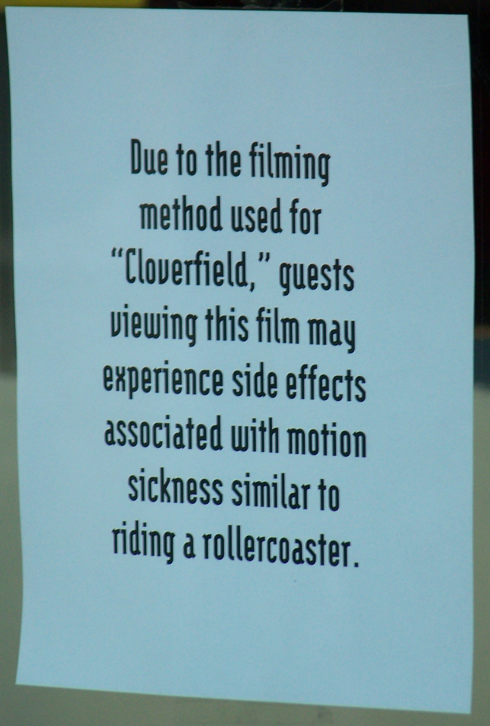 A sign at a San Diego AMC theater warning customers about the filming techniques used in the 2008 film Cloverfield.